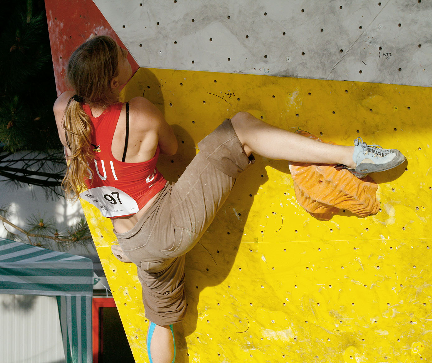 Tabea Schwab during qualifications at the IFSC Boulder Worldcup Vienna 2010.